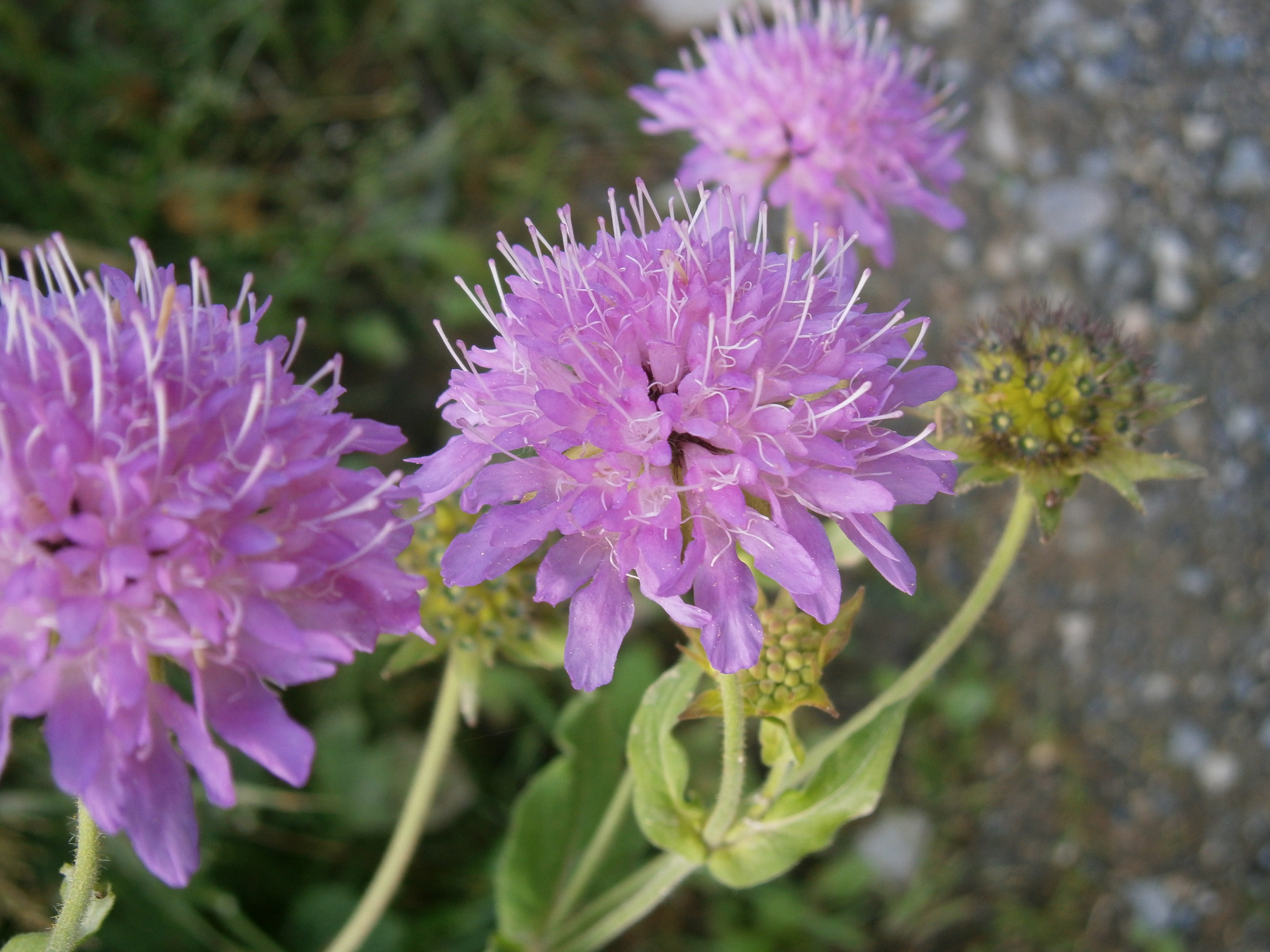 Knautia dipsacifolia